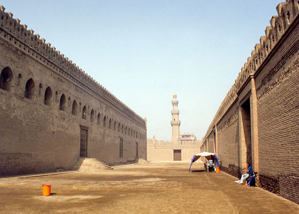 Ibn Tulun mosque. Cairo, Egypt